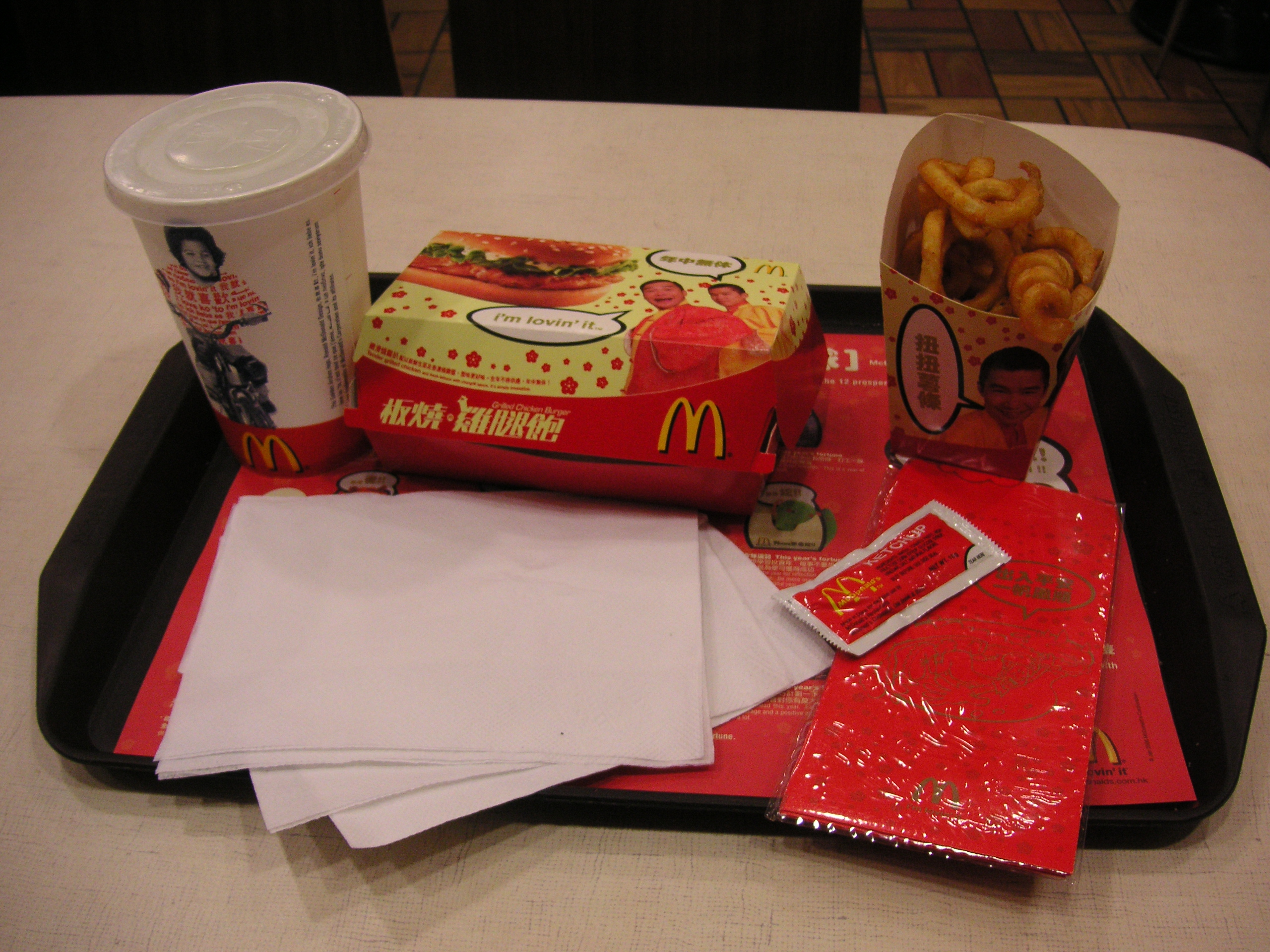 McDonald's Chinese New Year 2006 set meal with Grilled Chicken Burger and twisted French fries on the a tray with prediction in twelve zodiac animals of Chinese astrology. A bag of red porkets is also included in the meal.